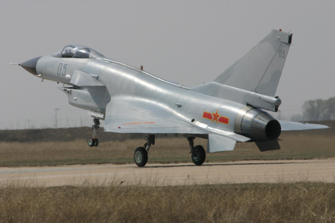 A Chengdu J-10 fighter of the People's Liberation Army Air Force.